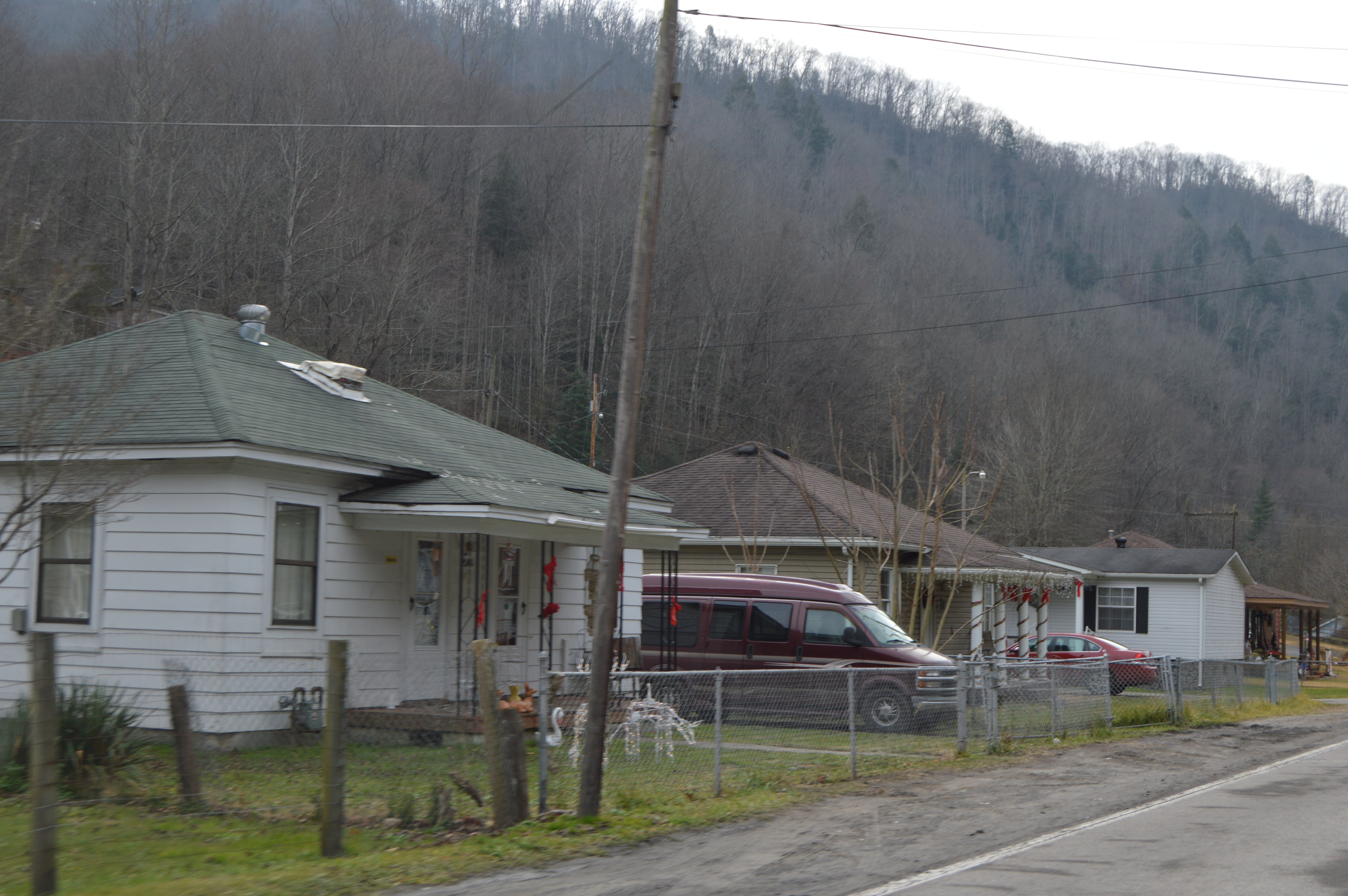 Houses on the southern side of West Virginia Route 16 at Black Eagle/Corinne in Wyoming County, West Virginia, United States.